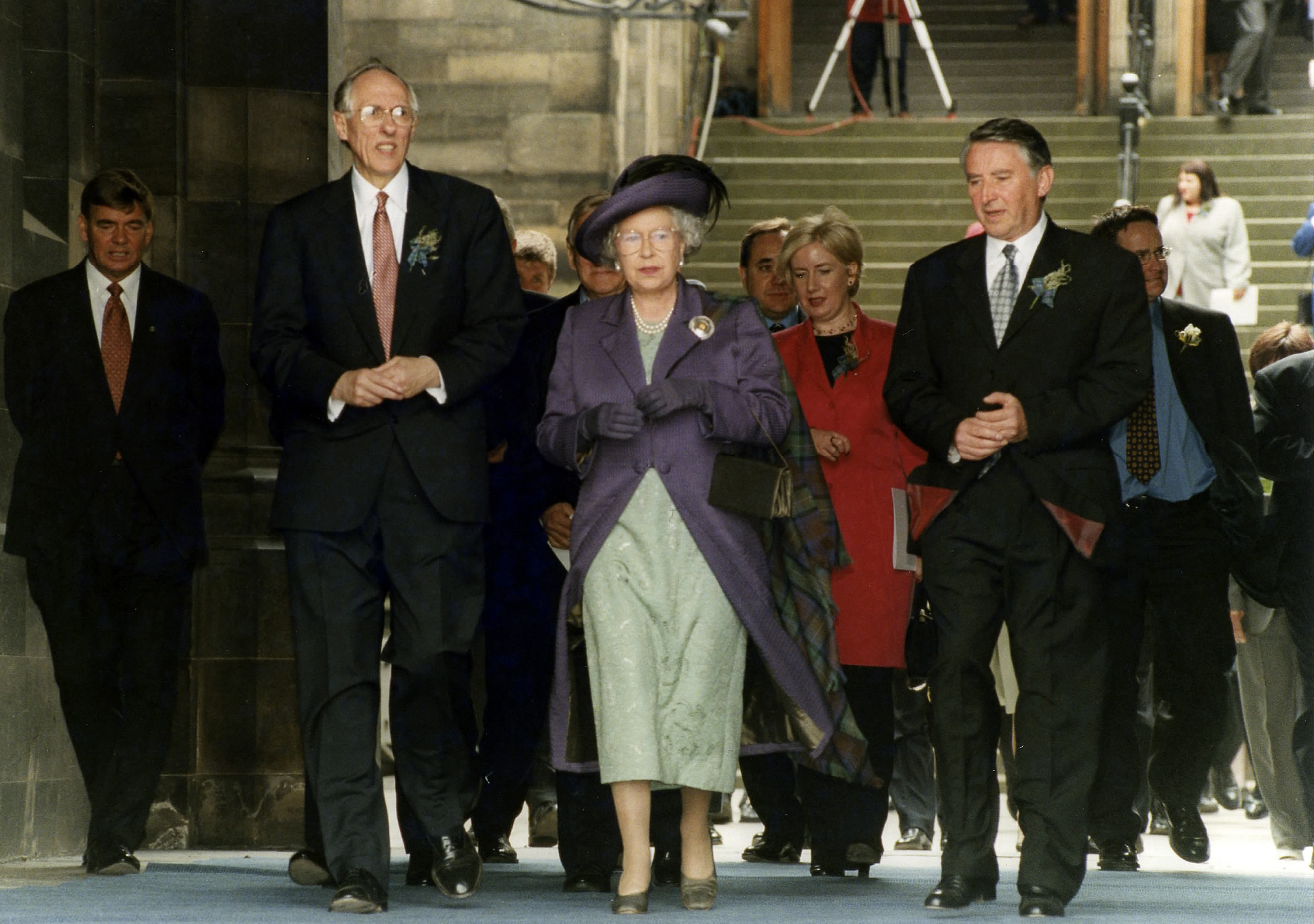 Her Majesty The Queen (centre) accompanied by the first First Minister of Scotland Donald Dewar MSP (left) and Presiding Officer Sir David Steel MSP (right) make their way out of the General Assembly building to greet the crowds before making their way to watch The Riding process down the Mound during the celebrations to mark the Opening of the Scottish Parliament on 1 July 1999.